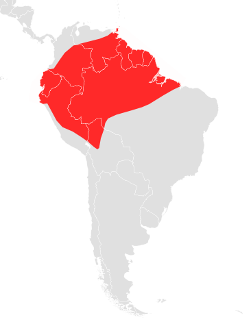 Distribution of Choeroniscus minor